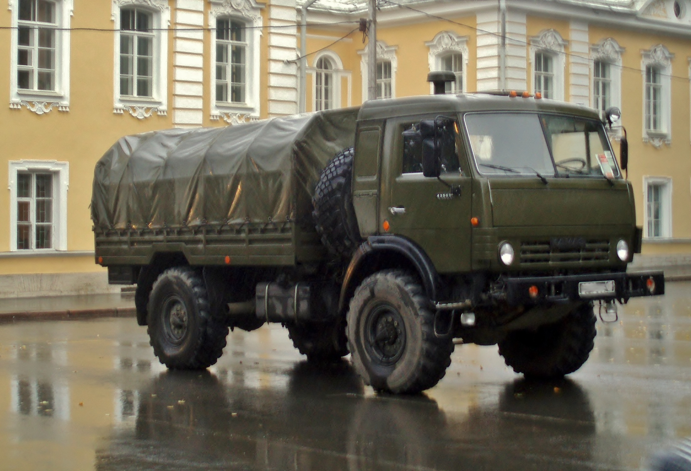 KAMAZ-43501 Truck - photo taken in Peterhof